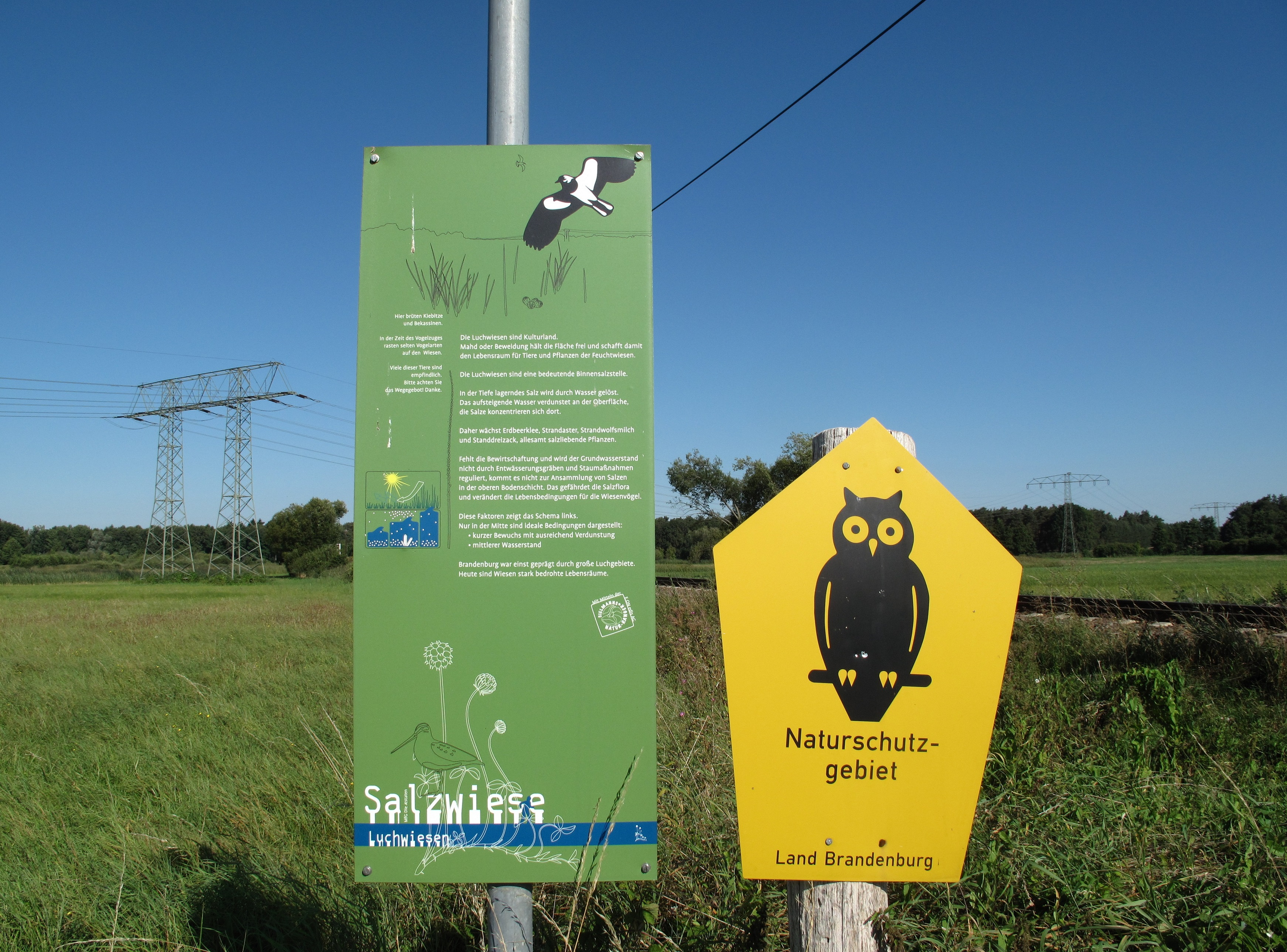 Informationboard Salt marsh in the Luchwiesen. In the background the Railway line Königs Wusterhausen–Grunow. The „Naturschutzgebiet Luchwiesen“ is a Naturschutzgebiet (protected area) and Natura 2000-area in the district Oder-Spree in Brandenburg, Germany. It is situtaed in the territory of the town Storkow and in the territory of Storkow’s Ortsteil (quarter)) Philadelphia (village). The area covers 109,57 hectare, is flown by the Storkower Kanal (water canal).and is placed in the Dahme-Heideseen Nature Park. It is characterised among others by inland salt marsh-meadows and makes up according to the German Federal Agency for Nature Conservation (Bundesamt für Naturschutz – BfN) the largest and most important inland salt marsh in Brandenburg.